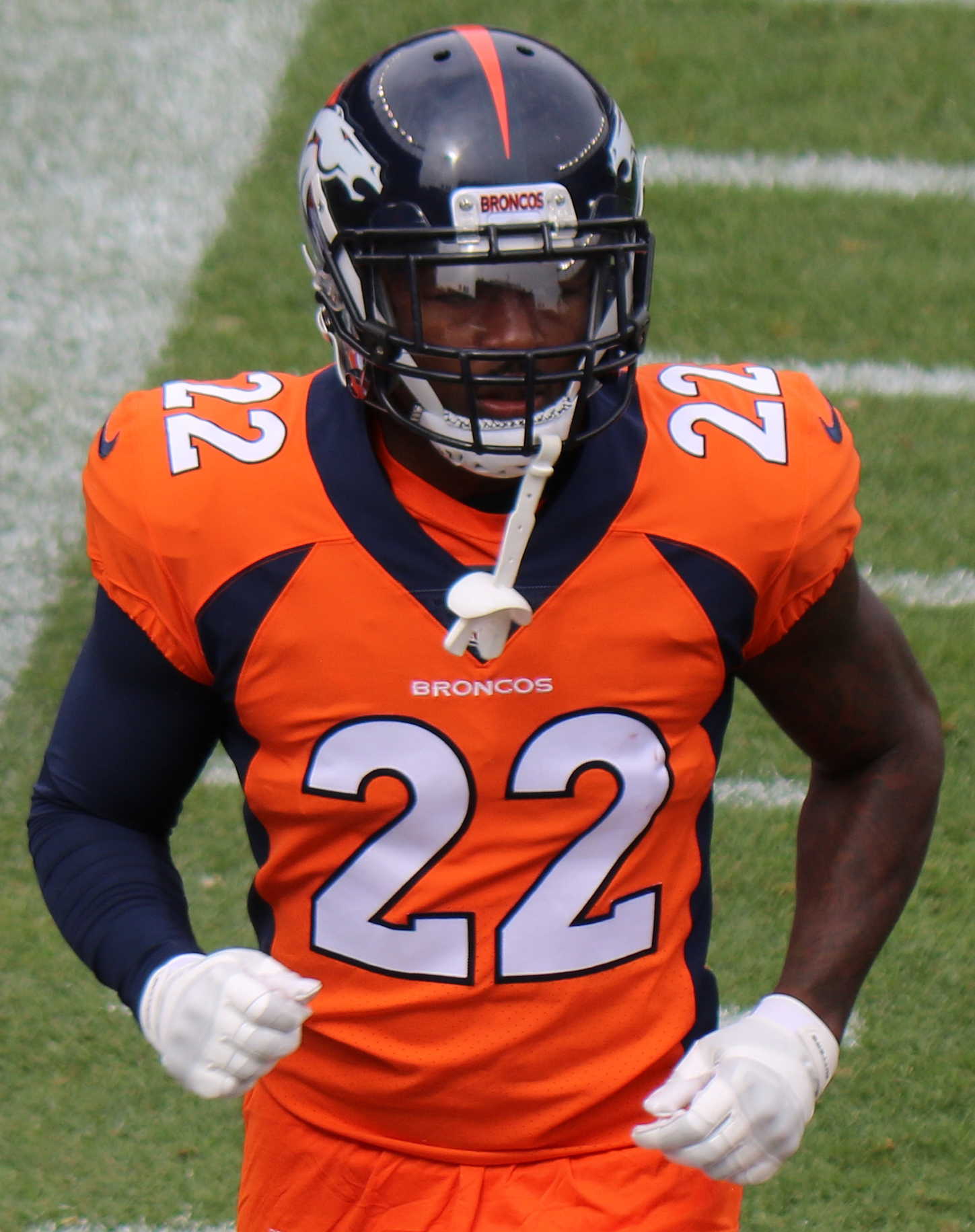 Tramaine Brock, a National Football League player.